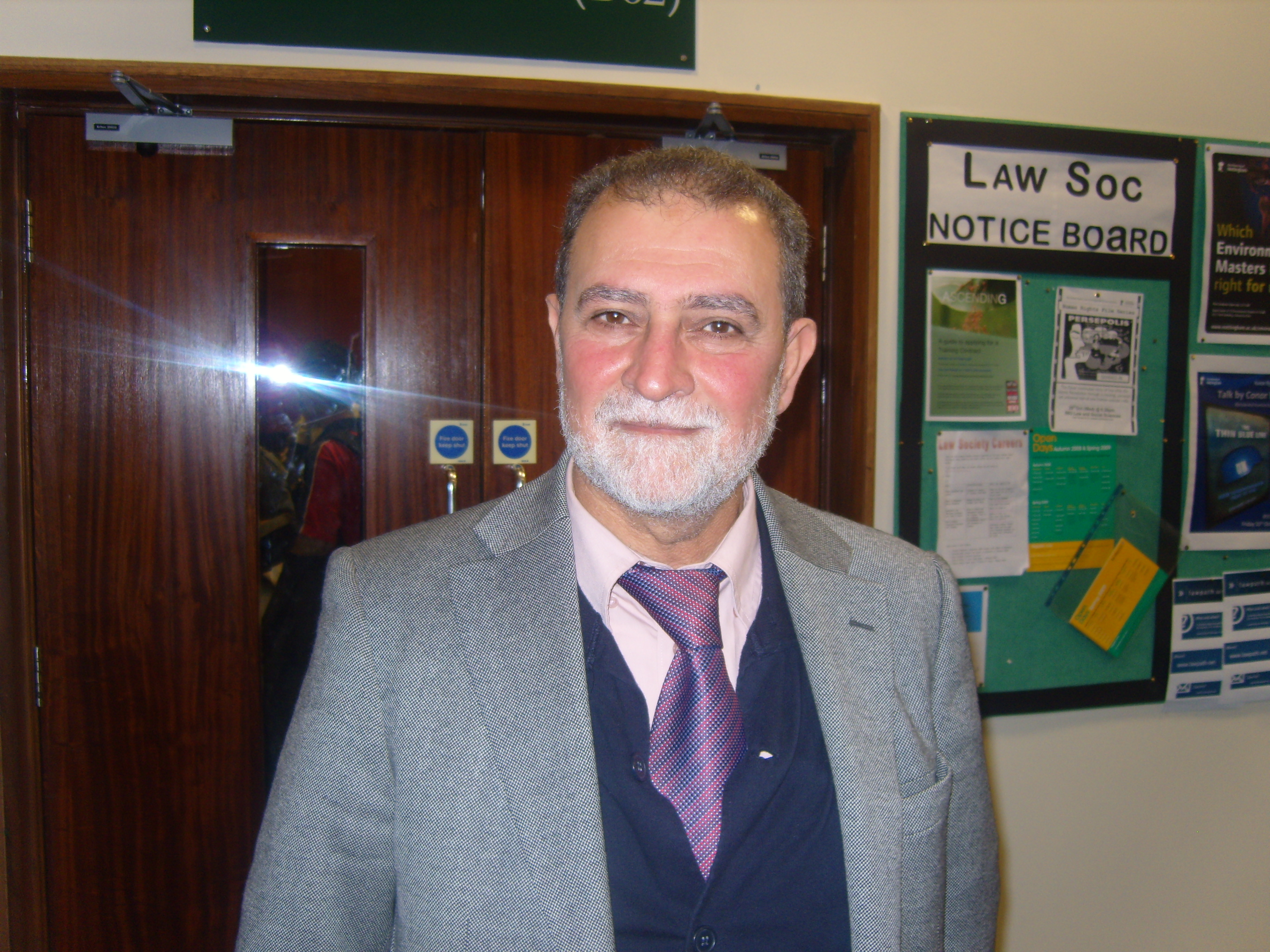 photo of Dr. Azzam Tamimi taken with his permission after a lecture in Nottingham University in UK in 1/Nov/2008.